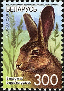 Stamp of Belarus